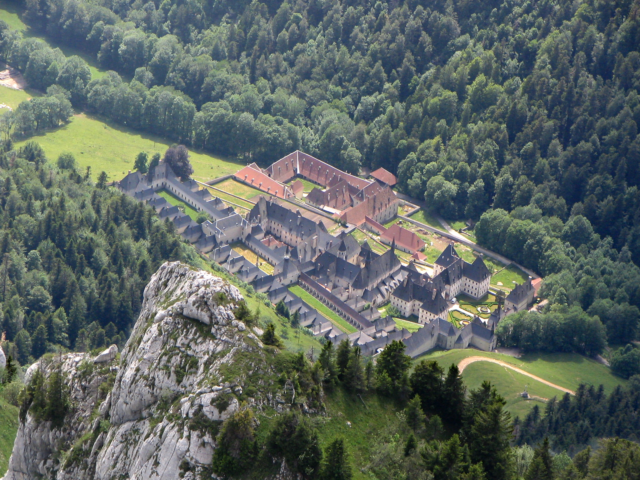 Grande Chartreuse monastery